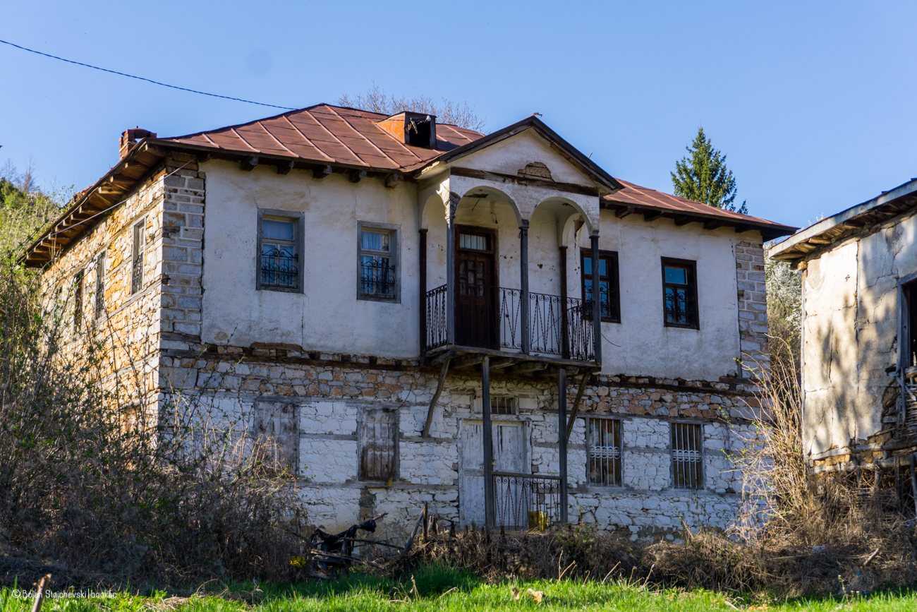 House in the village Prostranje, Macedonia